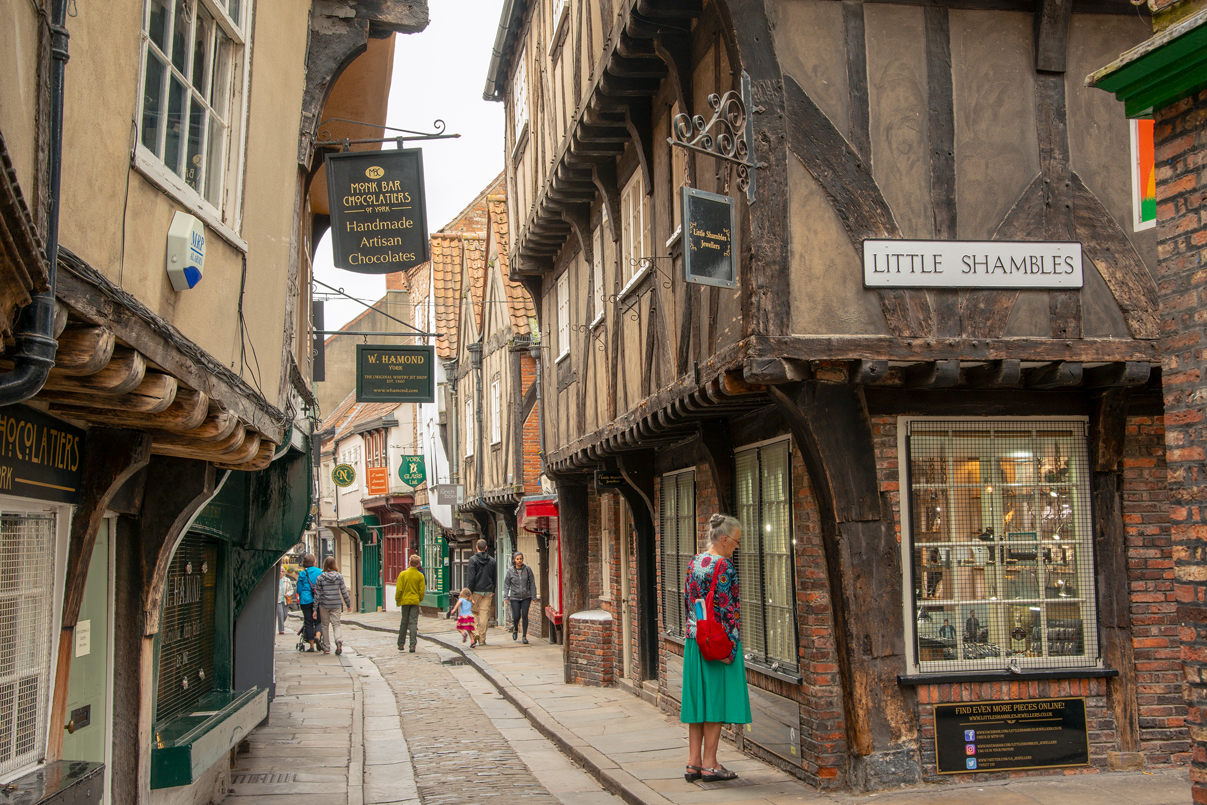 Intersection of Shambles and Little Shambles streets, York